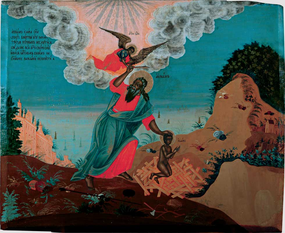 Abraham Sacrificing Isaac (russian icon)